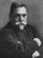 Wassily Safonoff